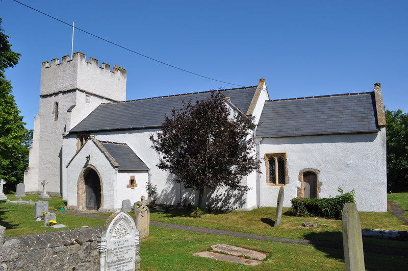 St Mary's Church, Kilve, Data from Geograph: Description: A whitewashed 14th C church restored in 1913, found open. Inside is a rather nice Norman font. ICBM: 51.188291734176, -3.2223671781317 Location: (about 1 km from) near to East Quantoxhead, Somerset, Great Britain.